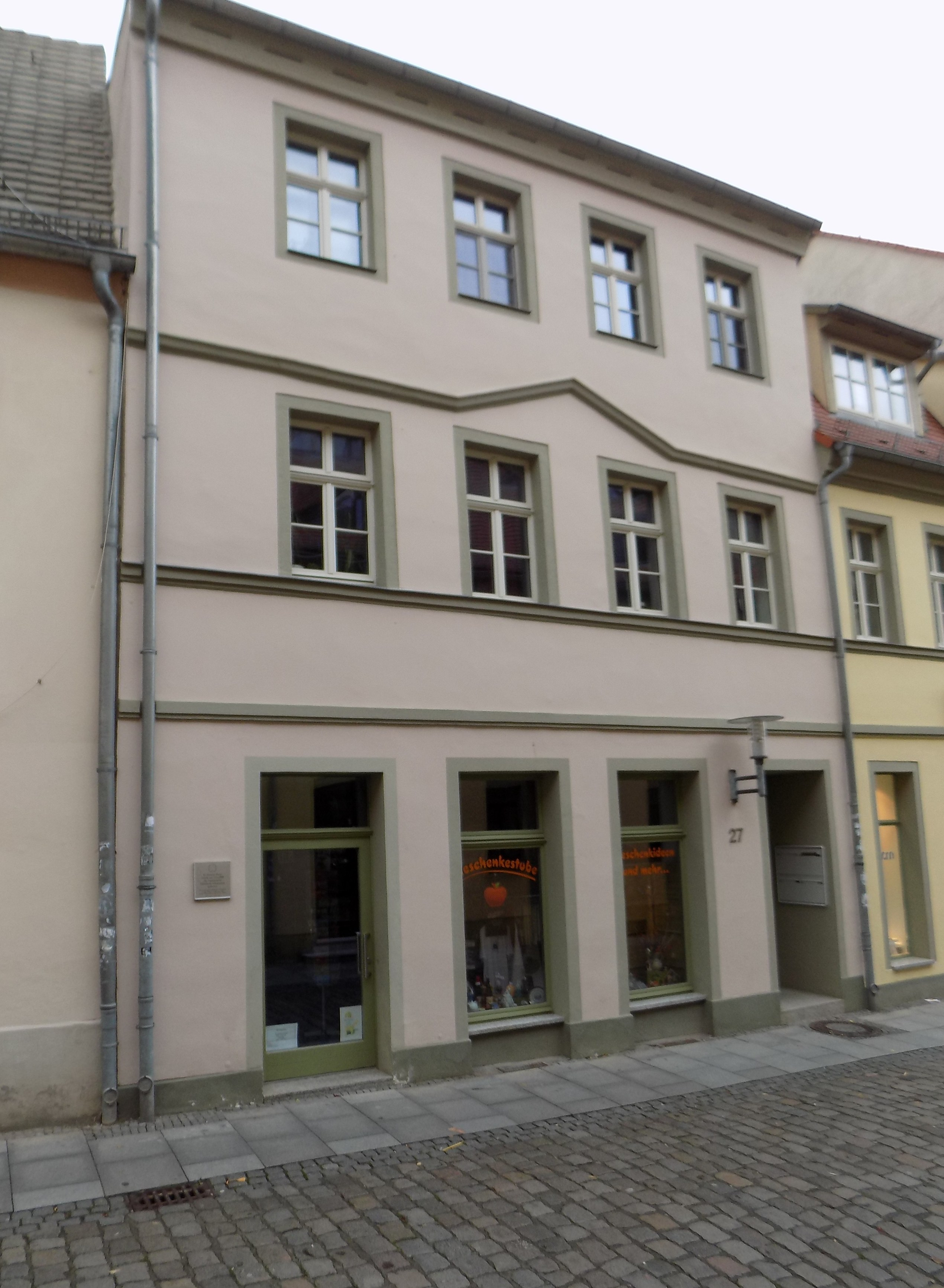 No. 27, Gotthardstrasse in Merseburg (district: Saalekreis, Saxony-Anhalt), birthplace of the soprano Elisabeth Schumann